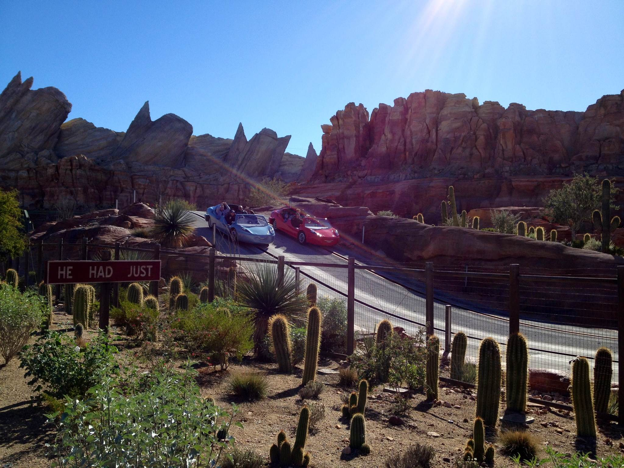 Red car and blue car racing side-by-side at Radiator Springs Racers in Cars Land.